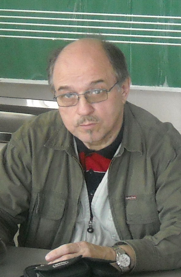 Professor Vladimir Polikarpov at the University of Priština (2010).